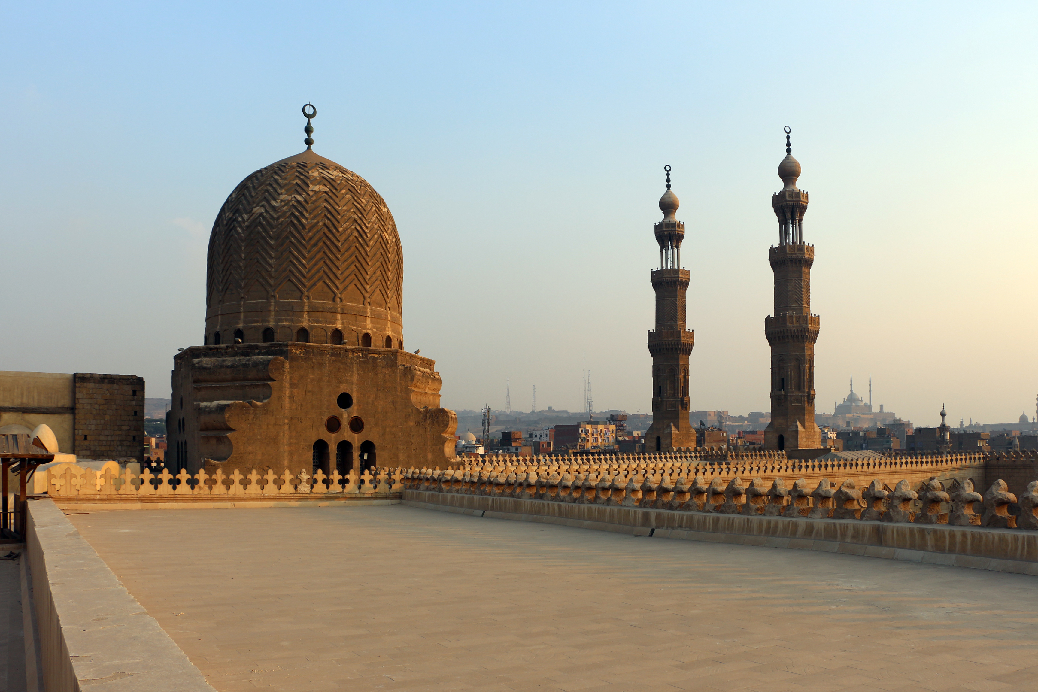 Mosque of Sultan al-Muayyad